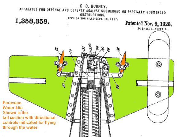 One of the first paravane patents shows controllable water kite wings and rudders at the empannage. Various purposed paravanes for military use: explosive and moored-mine cable cutting. Military used these water kites for offensive and defensive purposes. An explosive paravane unpon contacting a submarine would explode.